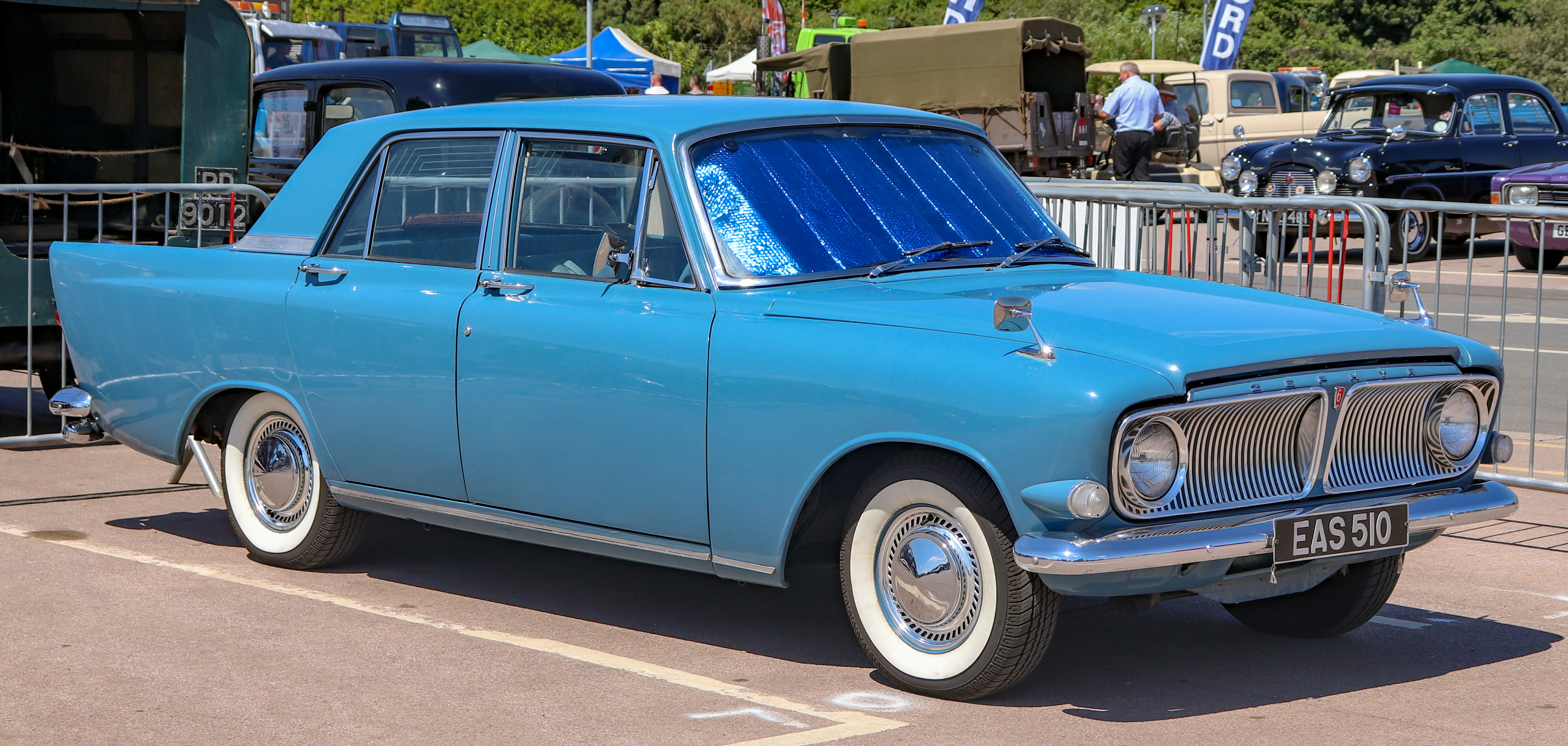 1964 Ford Zephyr 6 Mark III 2.5 Front Taken at the British Motor Museum Old Ford Rally 2018, Gaydon